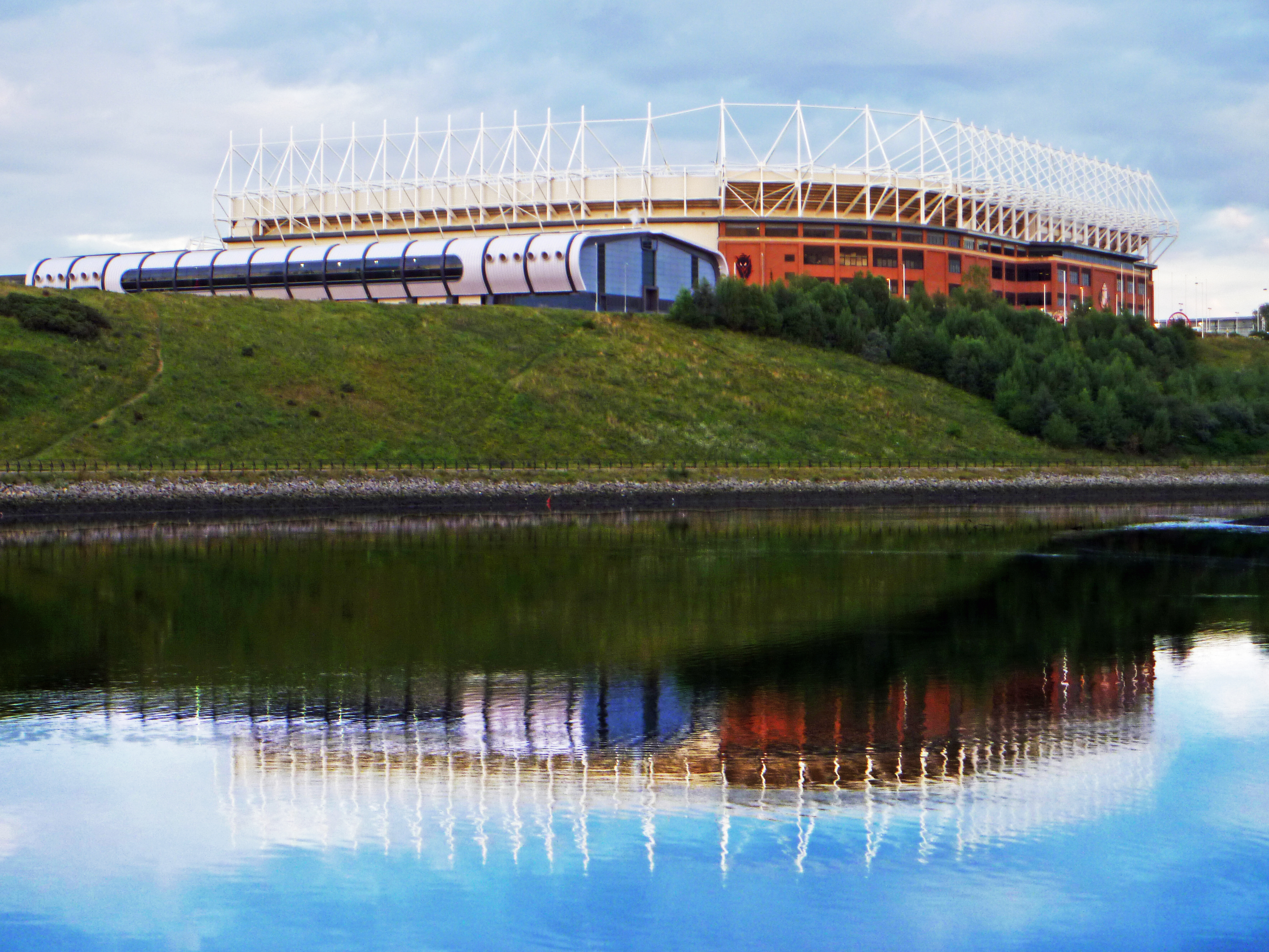 A walk along the north bank of the River Wear, in the evening sunshine. The water was very calm that night. (It was getting dark, so I have brightened this up a bit.) View on Google Maps